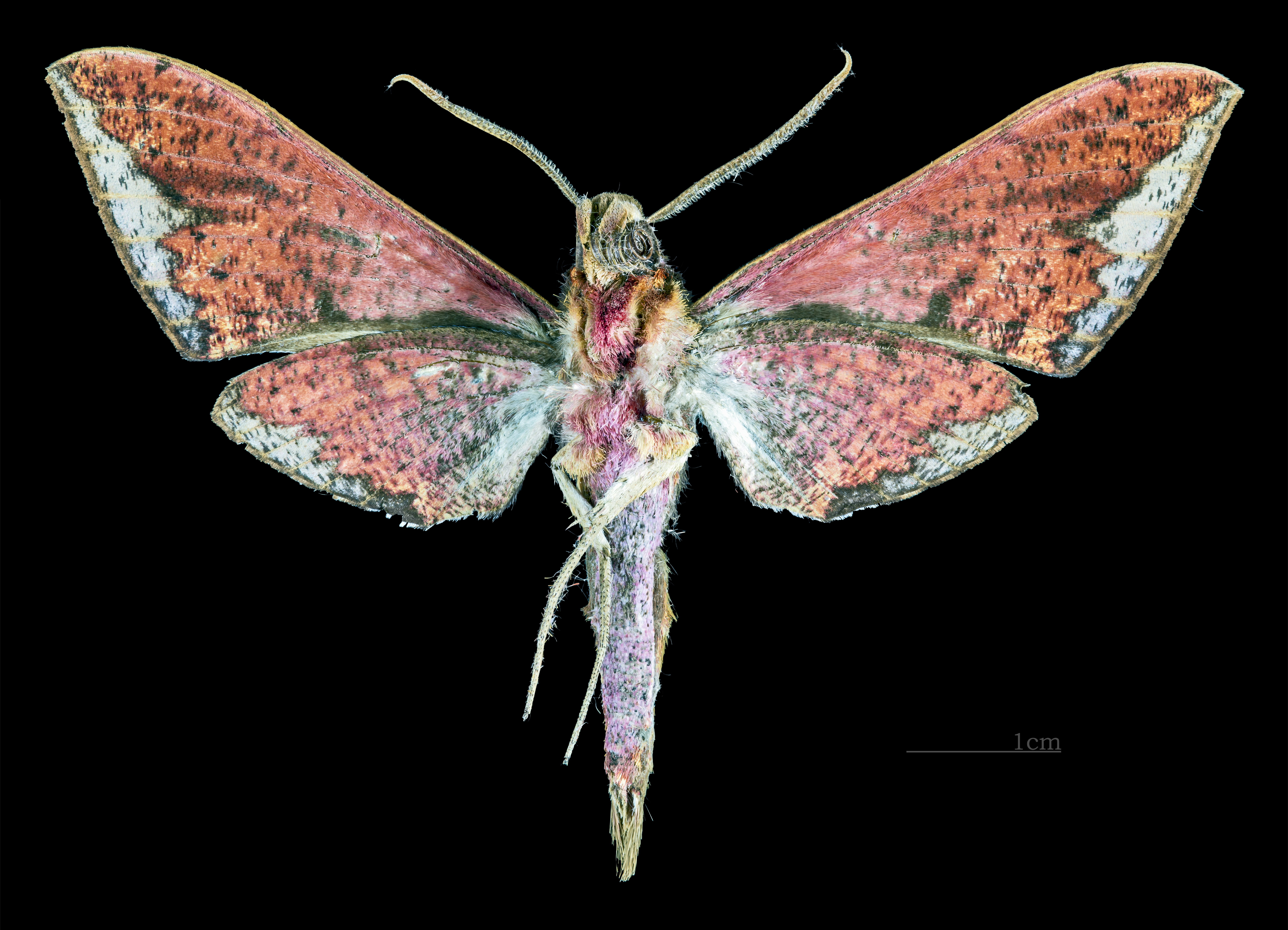 Rhagastis lunata - △ Ventral side Collection of the Mathematician Laurent Schwartz